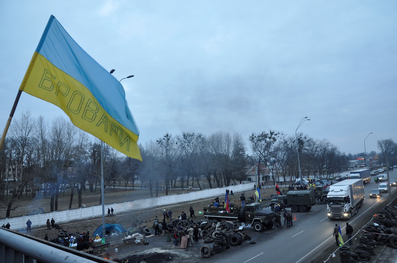 Checkpoint in Brovary. Euromaidan. Proof of License: [2].